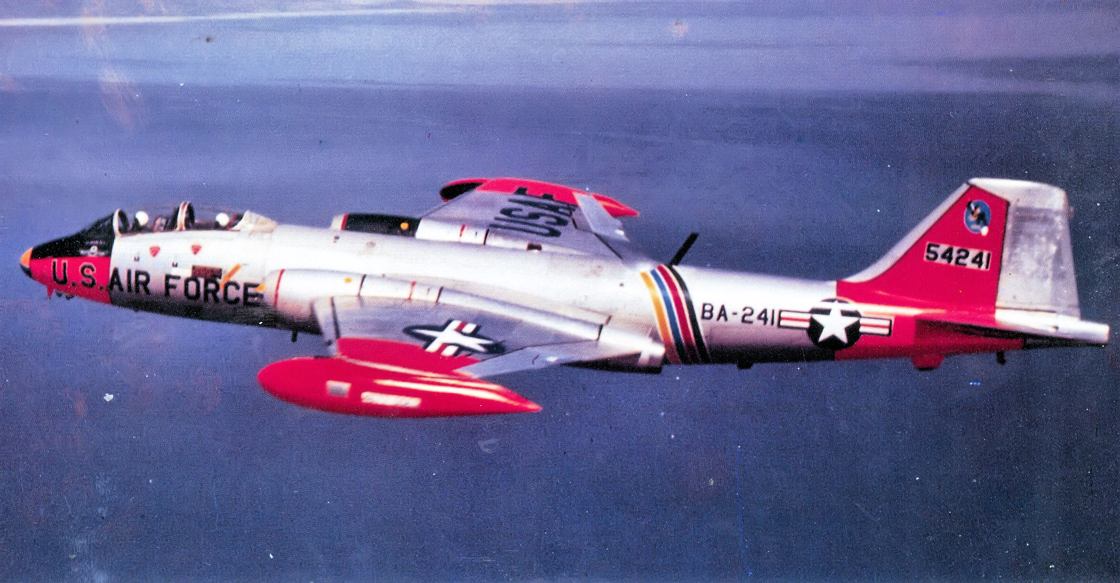 Martin EB-57E 55-4241 4677th Defense Systems Evaluation Squadron flying over the Great Salt Lake, Utah about 1970. To MASDC Jul 30, 1979